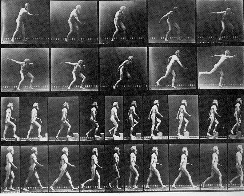 Sequences by Eadweard Muybridge (1830-1904) of himself throwing a disk, using a step, and walking.